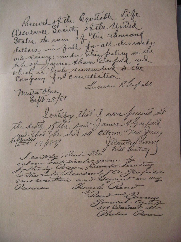 President James A. Garfield's $10,000 life insurance policy surrendered and signed by Lucretia Garfield and Joseph Stanley-Brown, witnesses to Garfield's death. Policy discovered in family scrapbook from the same period of Garfield's death.